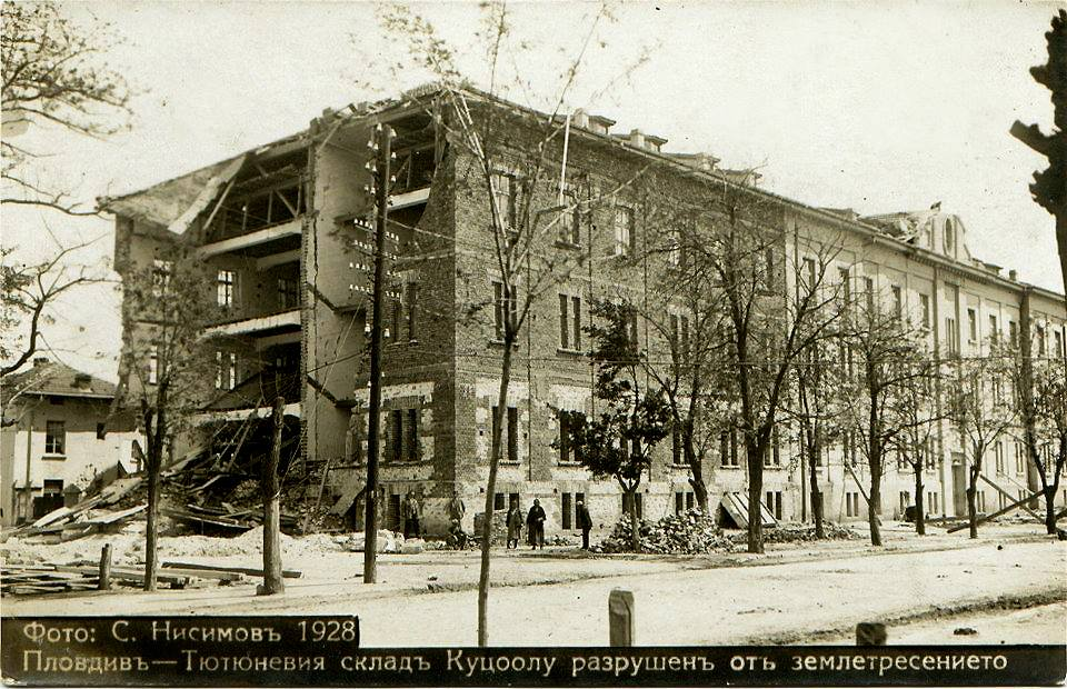 Tobacco Warehouses by Dimitar Kudoglu, 1928